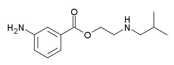 i drew this anyone can use it